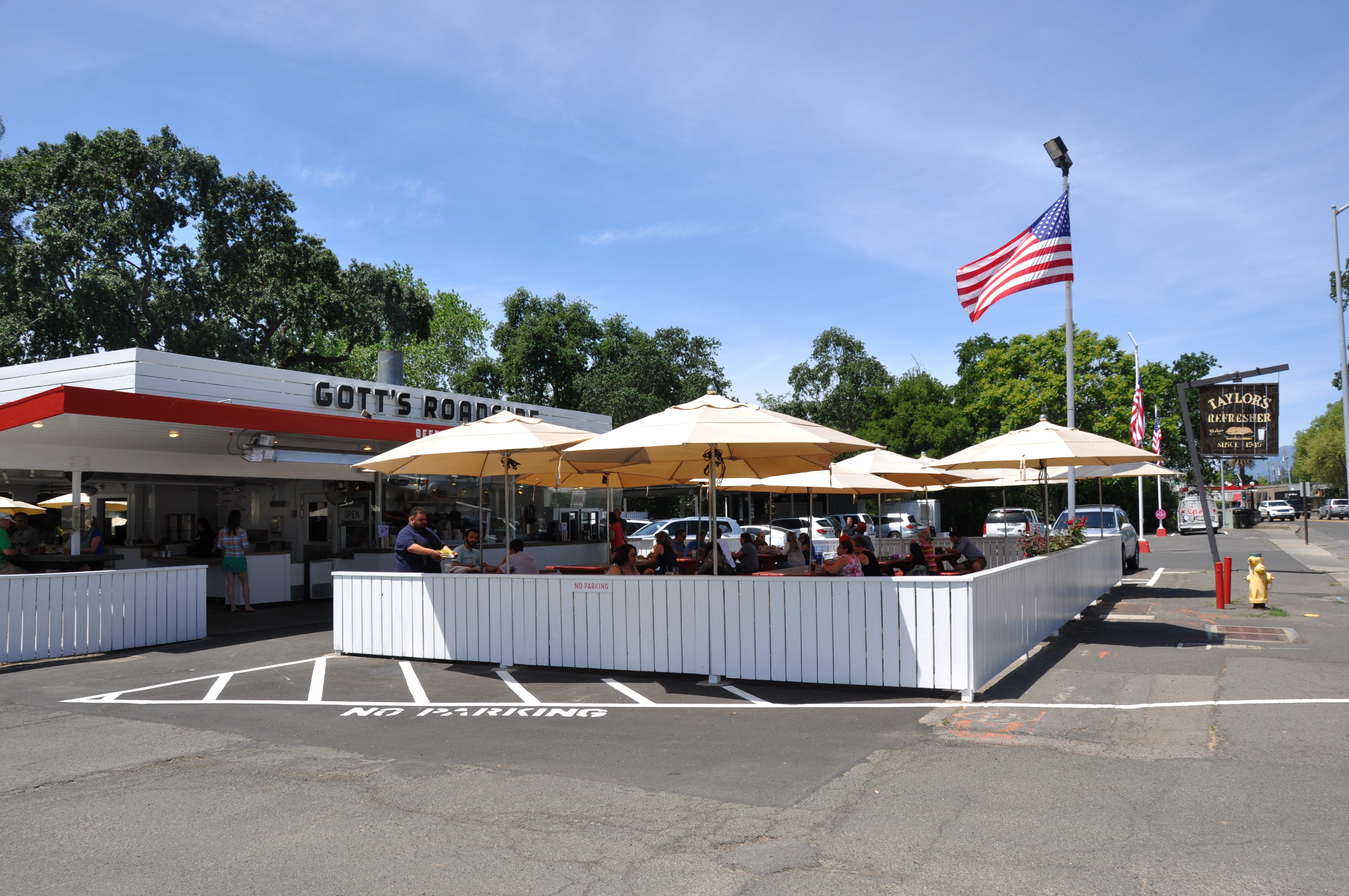 Gott's Roadside/Taylor's refresher, St. Helena